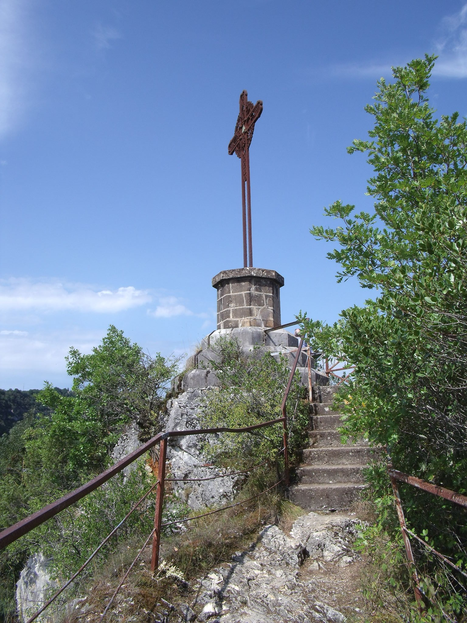 Belvedere Copeyre ascension